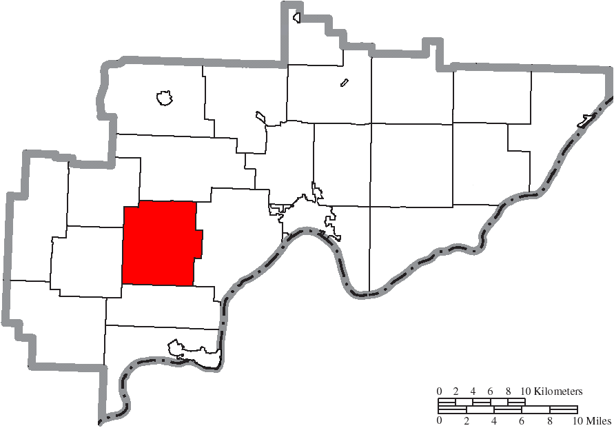 Map of the municipal and township boundaries of Washington County, Ohio, United States, as of the 2000 census, with the location of Barlow Township highlighted. Township borders are shown only in unincorporated areas in order to differentiate incorporated and unincorporated areas more clearly.